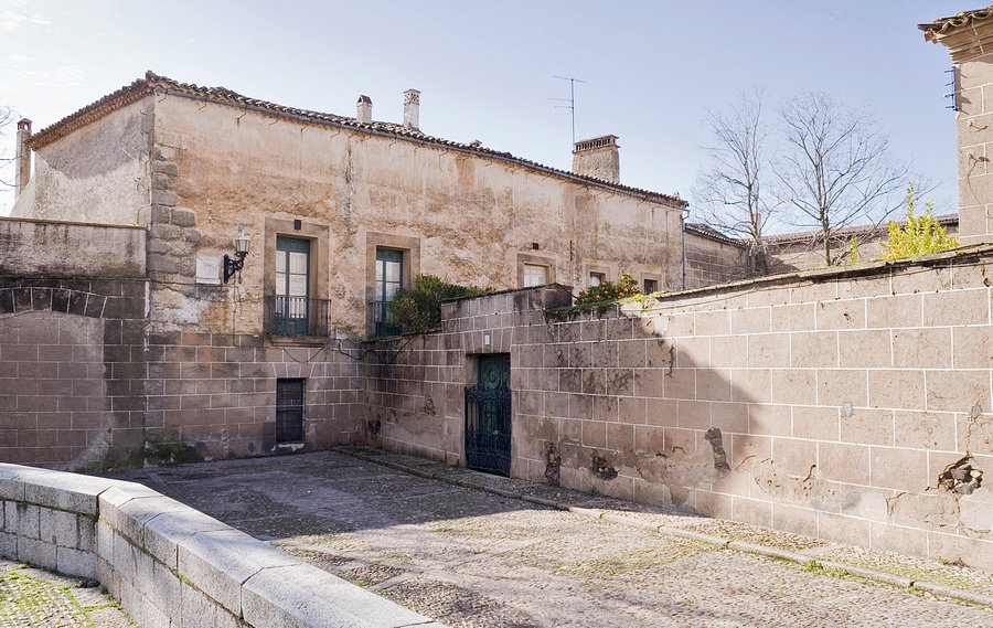 Palacio de los Duques de Alba